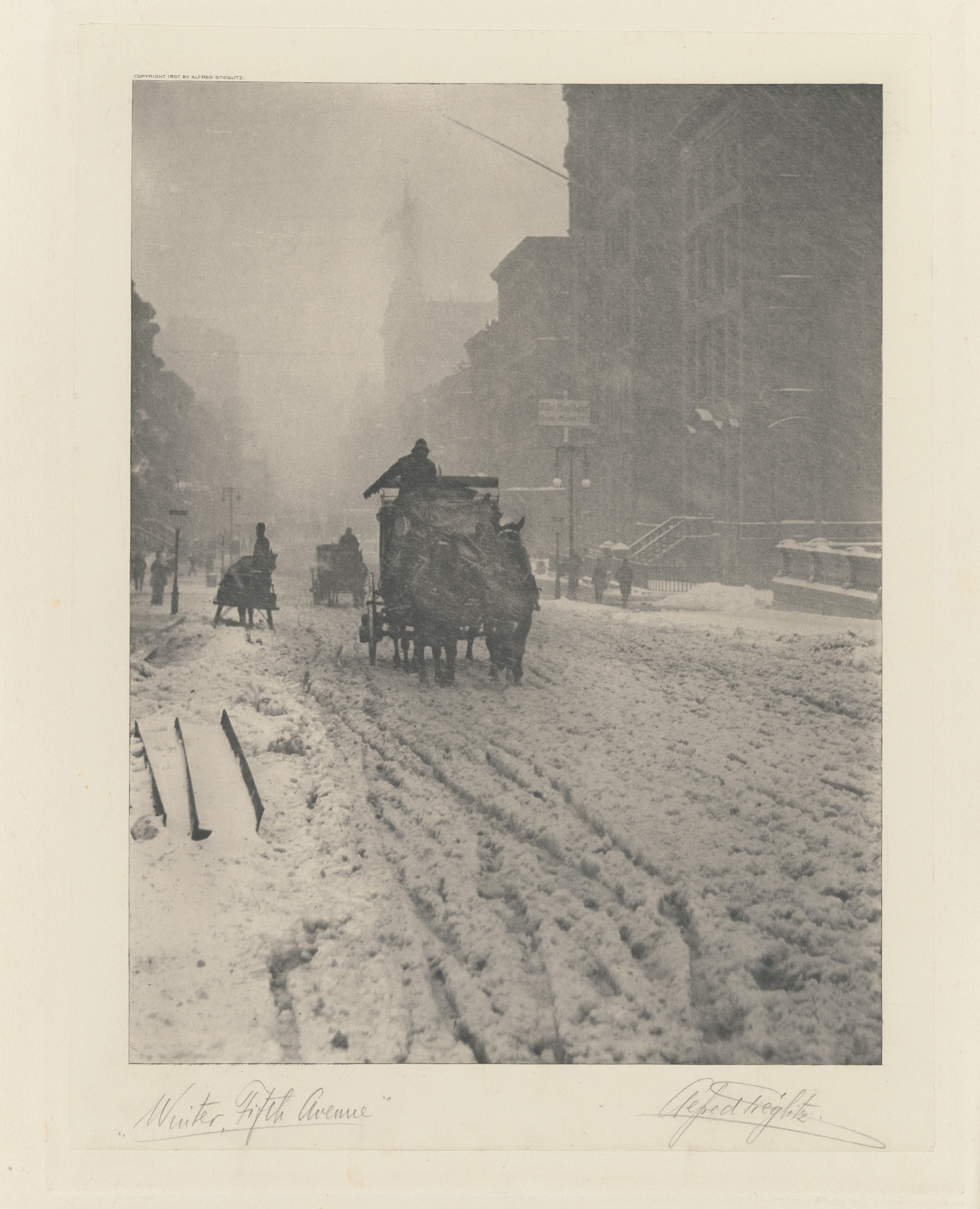 Photomechanical print; Photographs